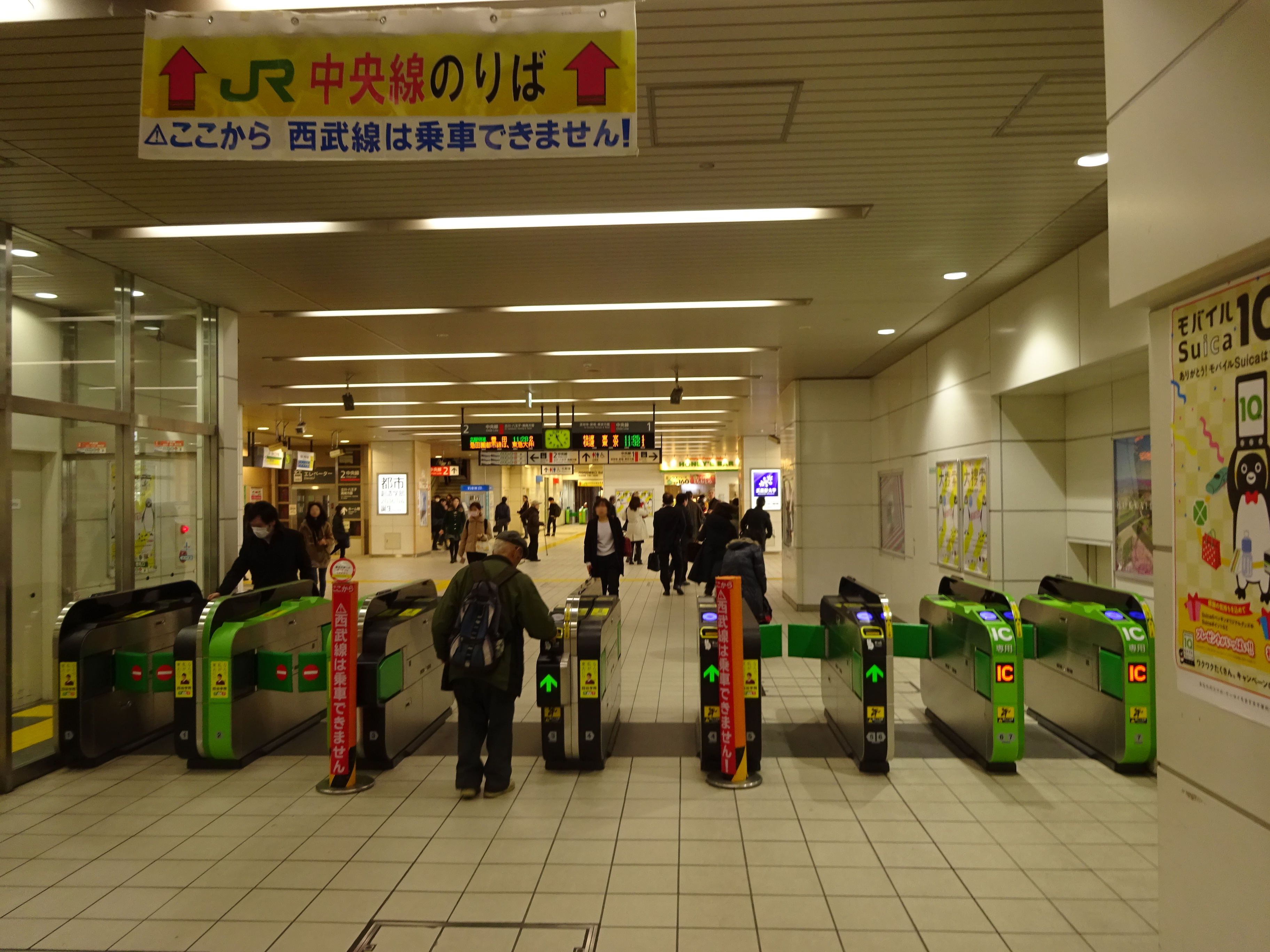 Ticket gate of Musashi-Sakai Station(JR)